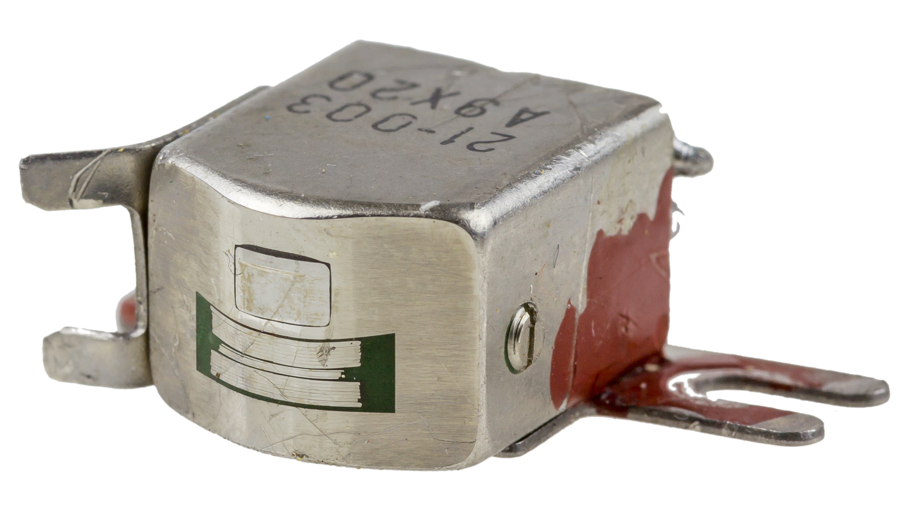 JVC KD-A22 - Tape head, separated from device